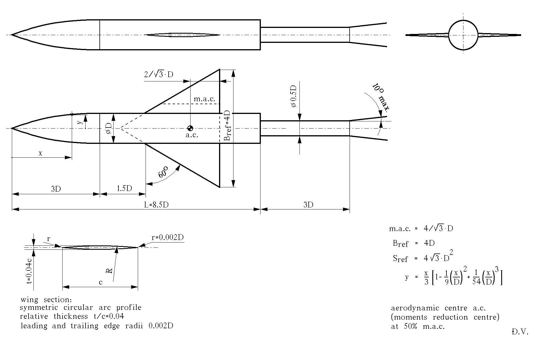 Definition of the geometry of the AGARD-B standard wind tunnel model